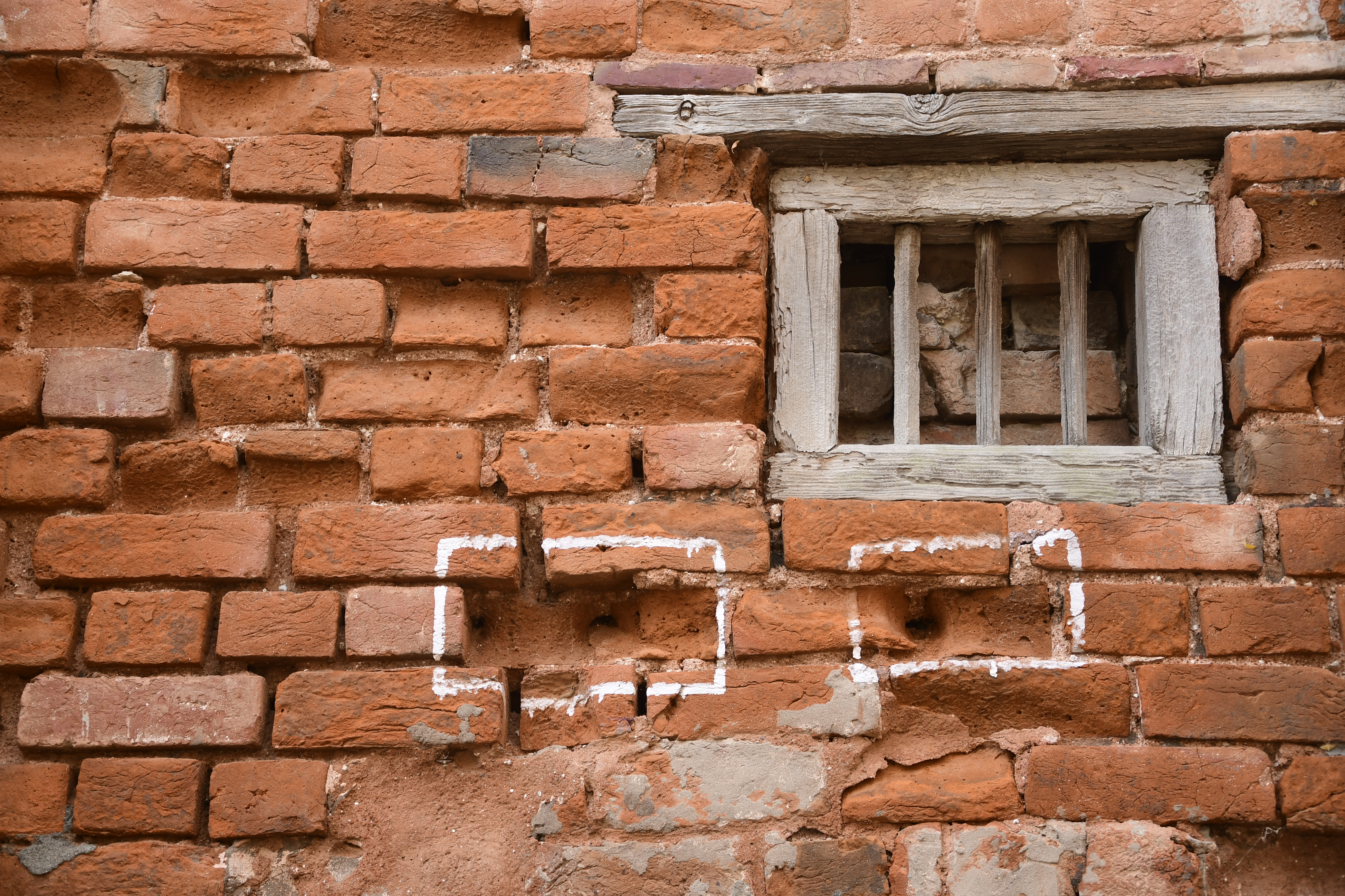 Jallianwala Bagh is a historic garden and ‘memorial of national importance’ in Amritsar, India, preserved in the memory of those wounded and killed in the Jallianwala Bagh Massacre that occurred on the site on the festival of Vaisakhi, 13 April 1919